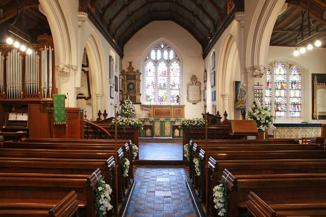 St Mary, Monken Hadley, Herts - East end